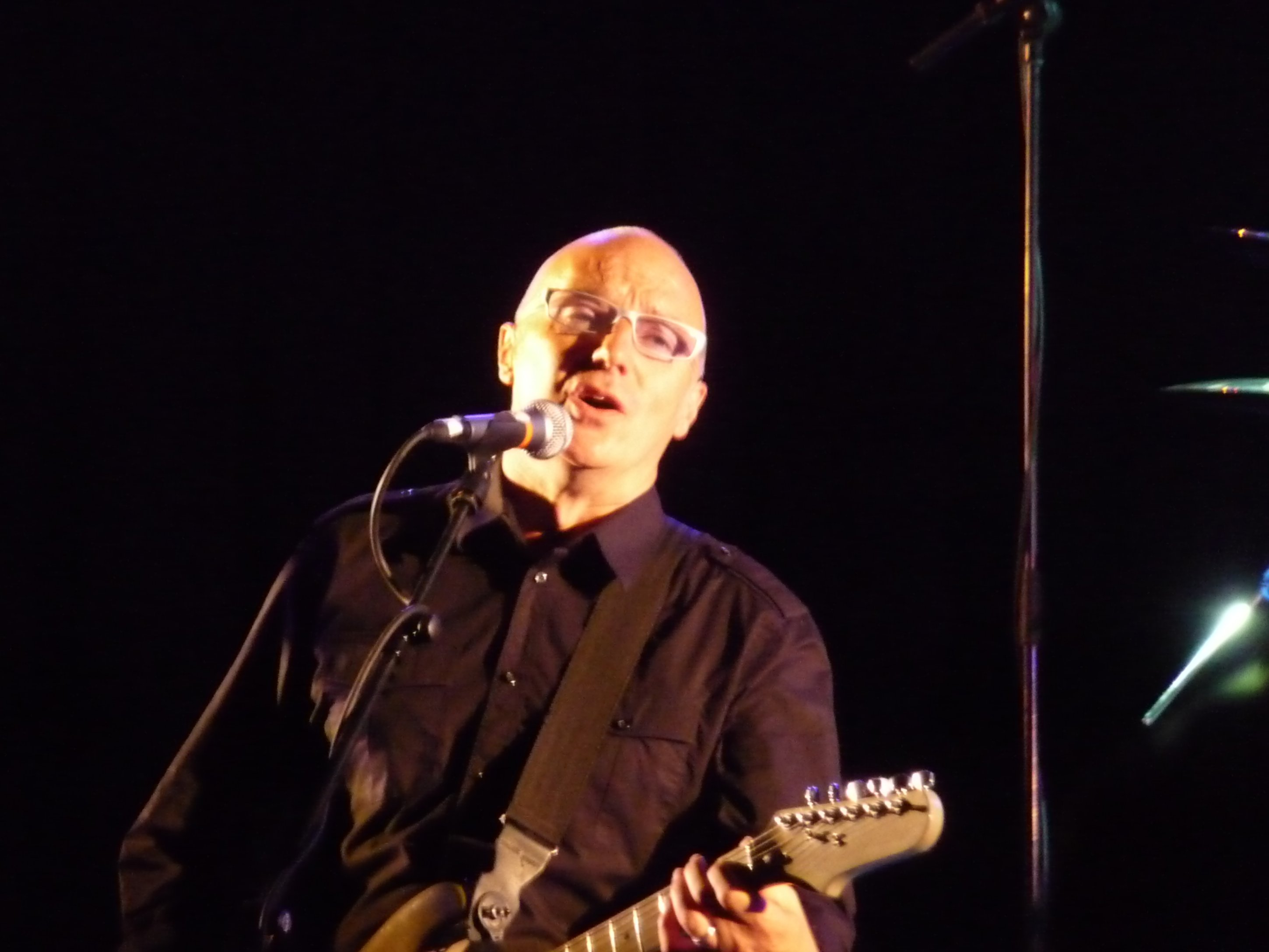 Midge Ure playing „Return to Eden“ tour concert at „Theater am Marientor“, Duisburg, Germany